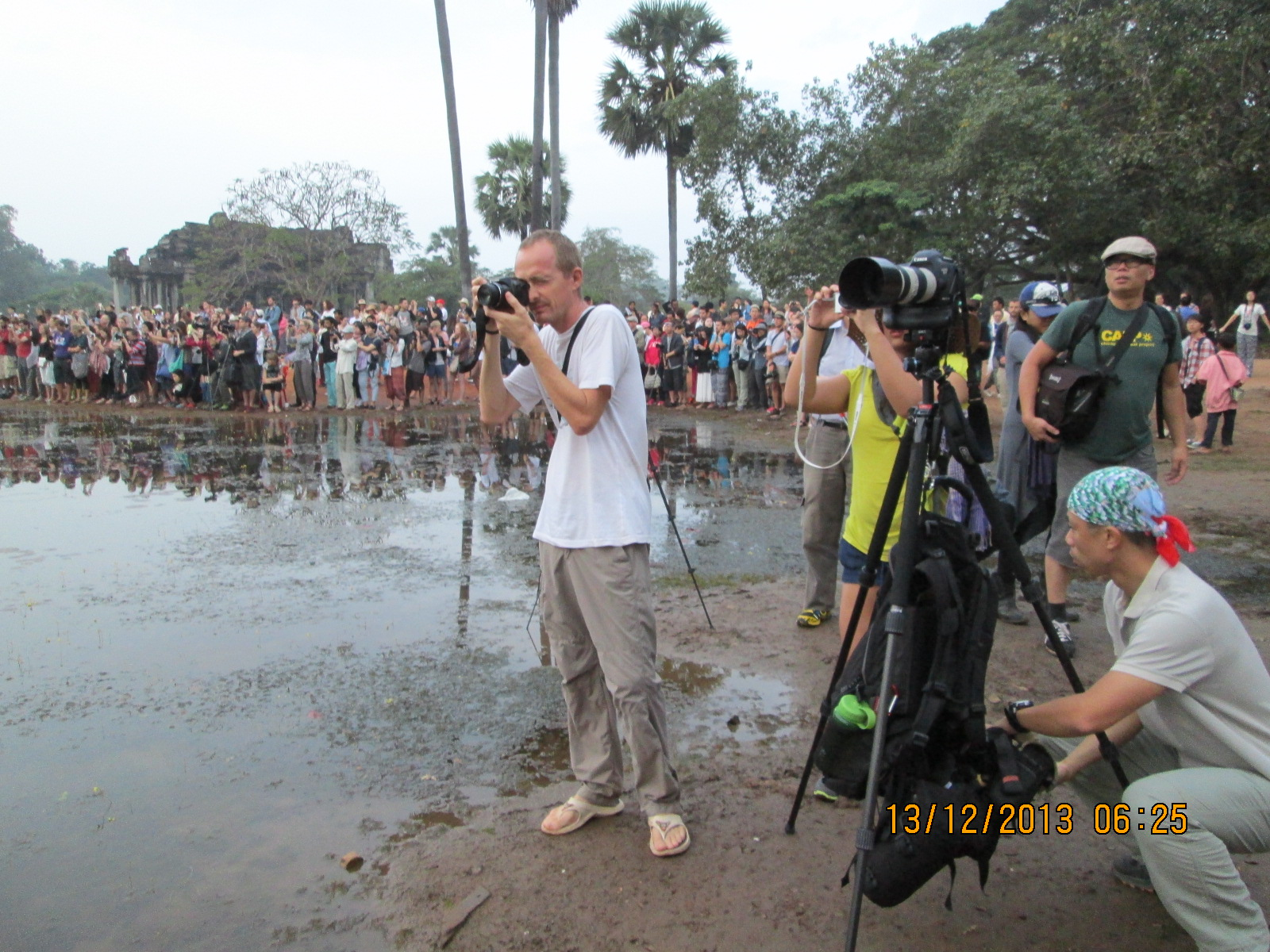 "Angkor Wat" sunrise is considered one of the best sights in the World.